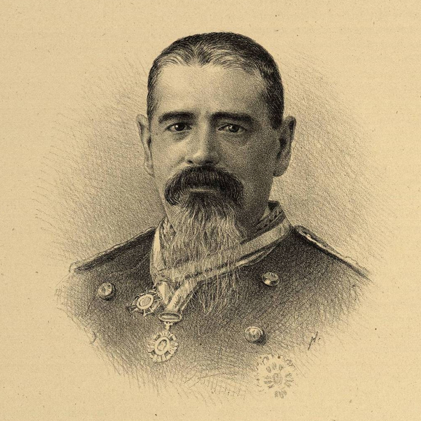 General Rosendo Márquez, lithography from the book The prominent men of Mexico, 1888.